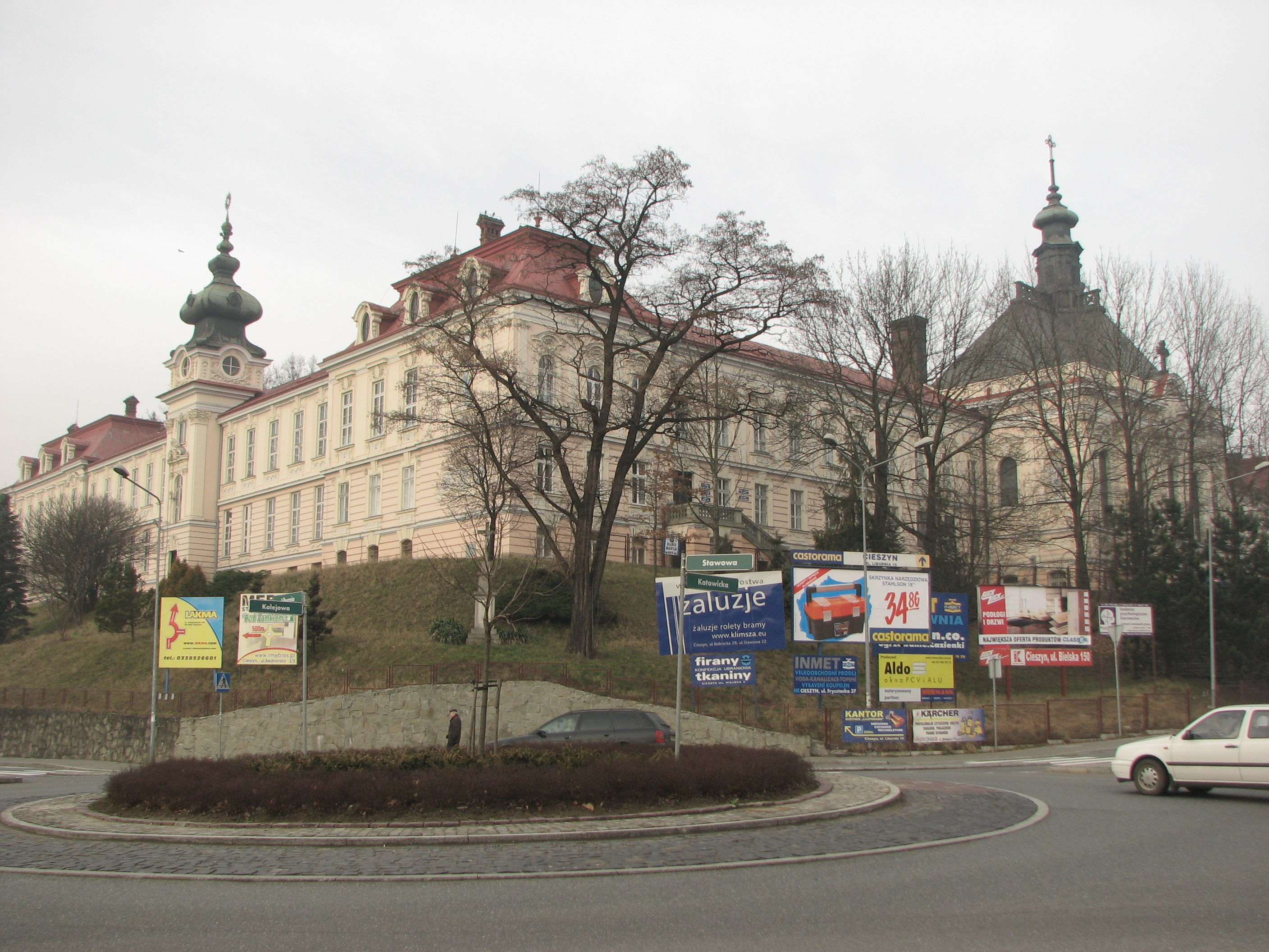 Hospital, monastery and chapel of Saint Elisabeth in Cieszyn